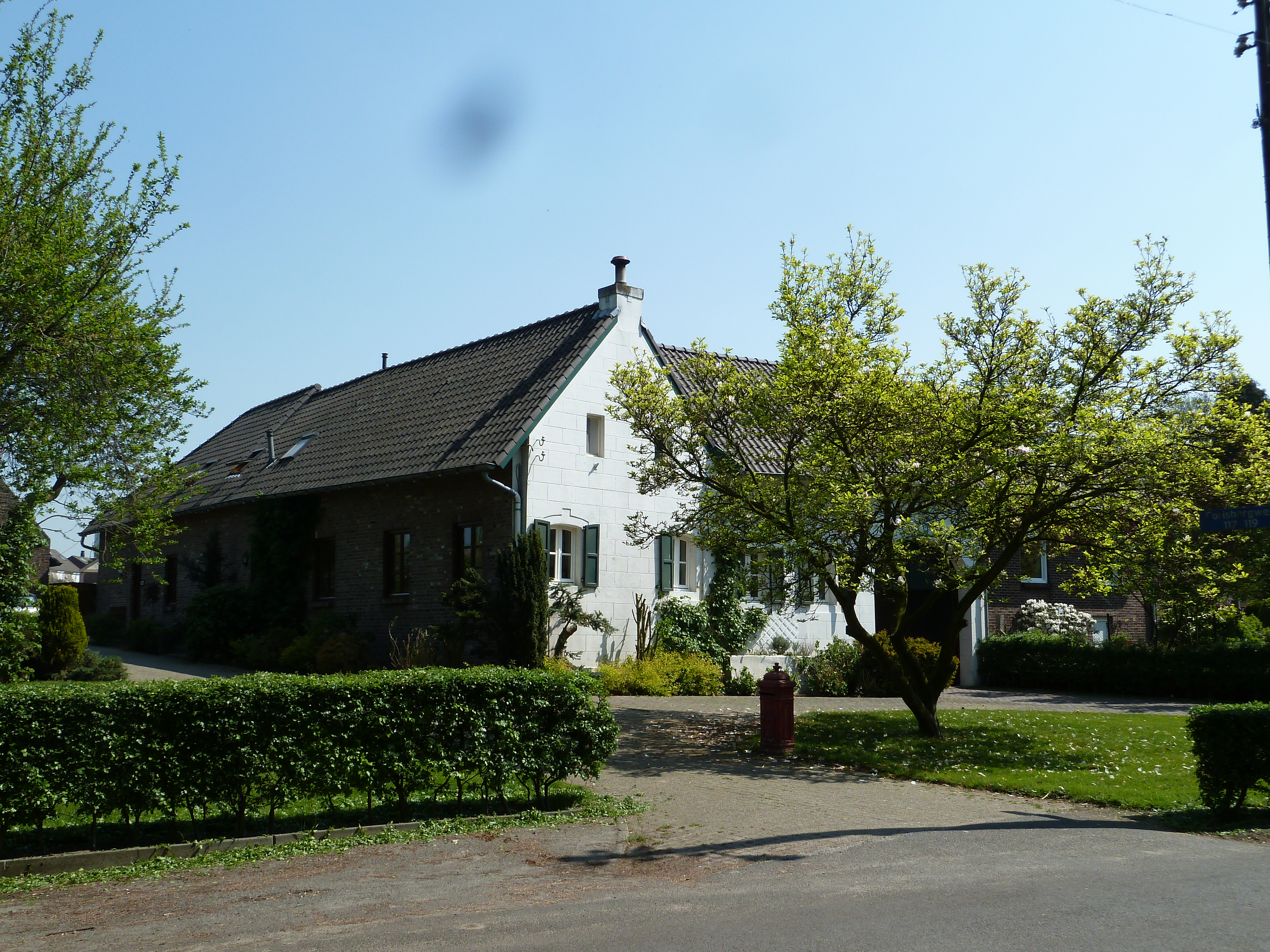 Corisbergweg 119, Heerlen, Limburg, the Netherlands